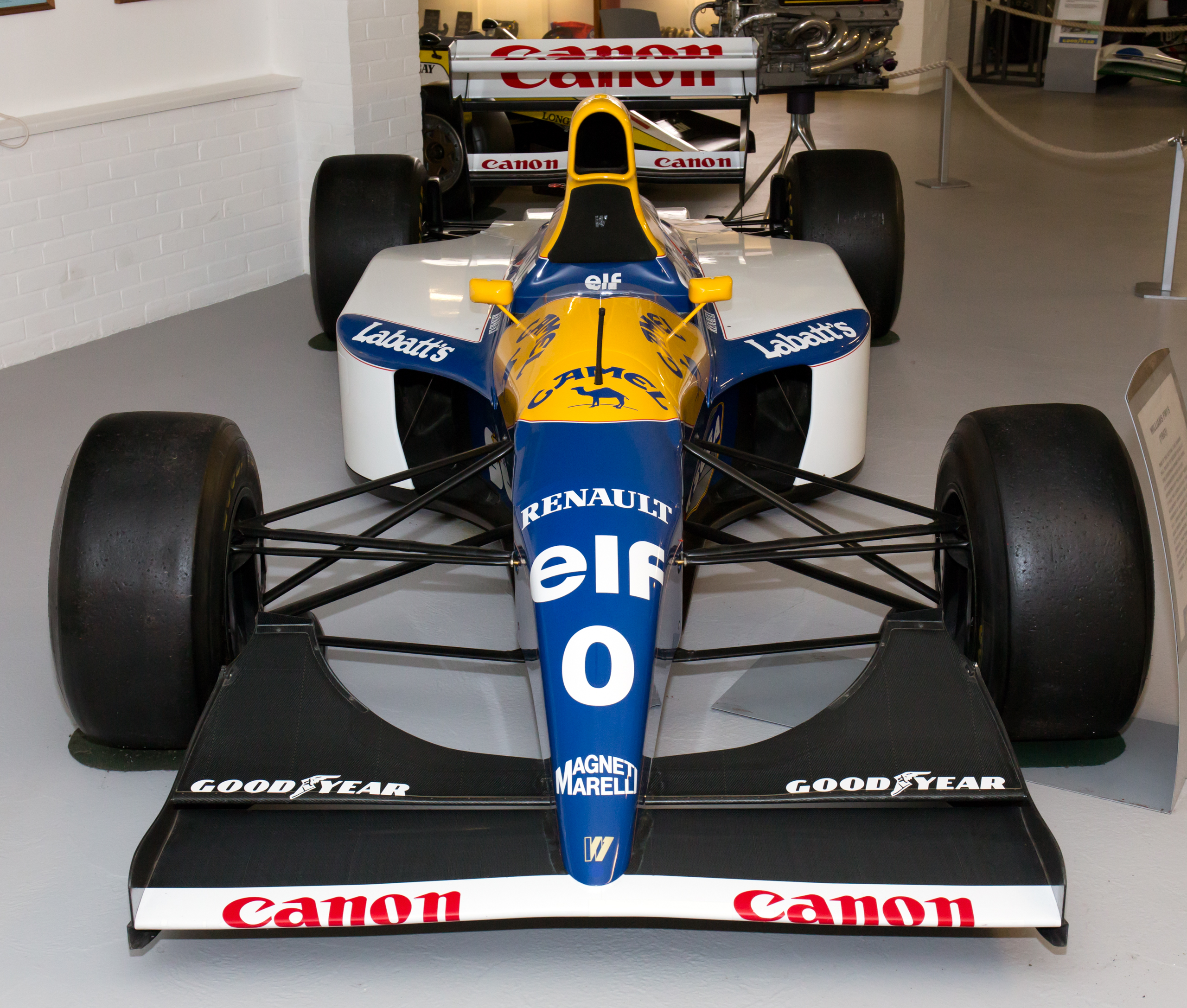 1993 Williams FW15C (#0 Damon Hill)